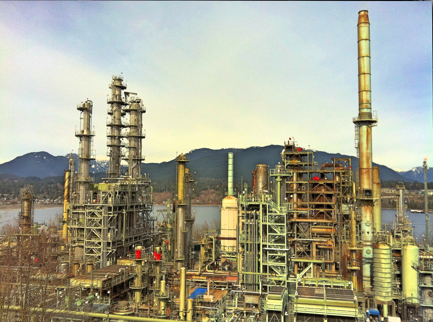 The Chevron oil refinery in Burnaby, B.C., Canada